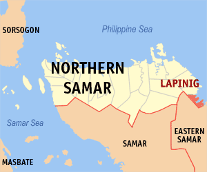 Map of Northern Samar showing the location of Lapinig